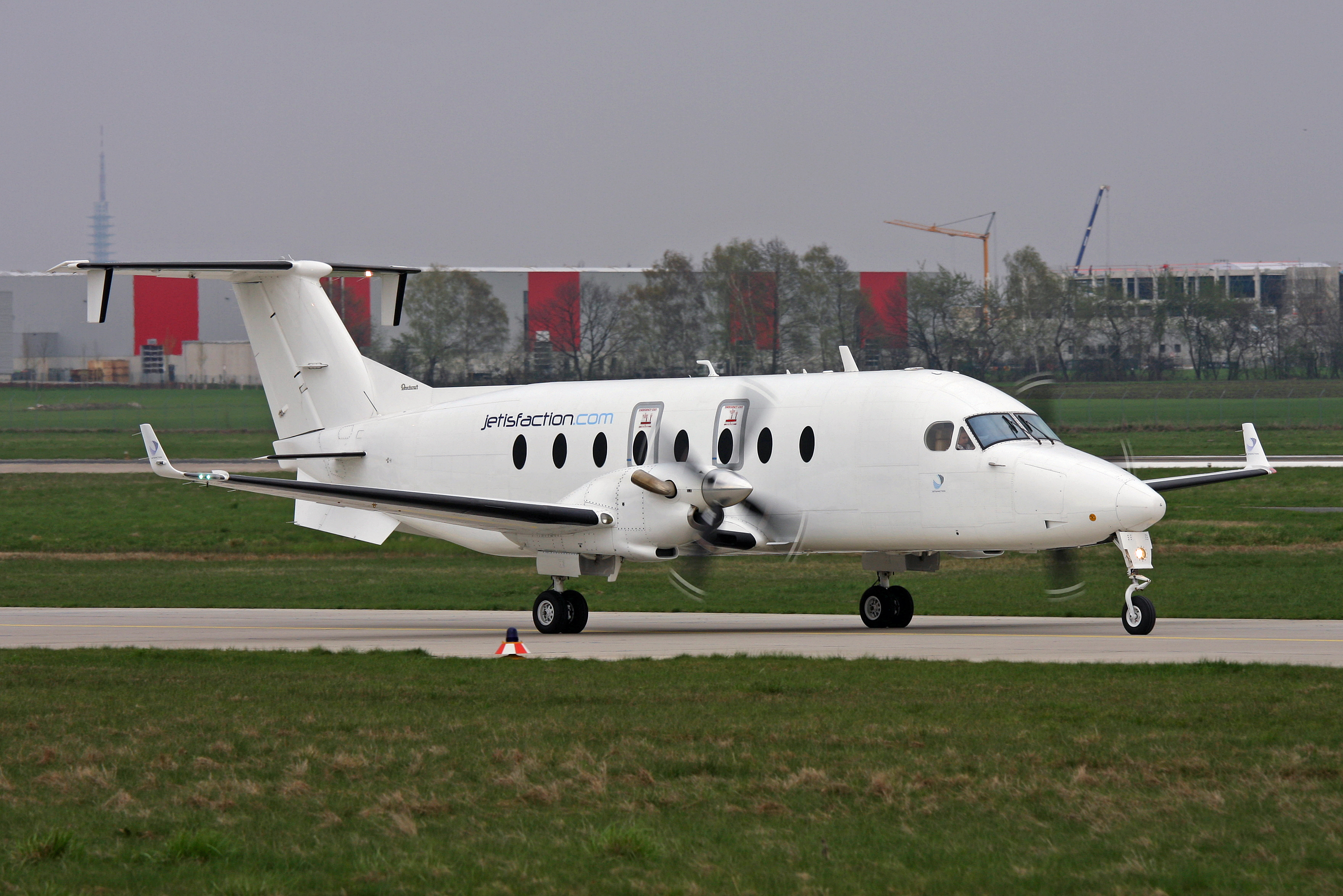 Jetisfaction Beechcraft 1900D at Hannover Airport